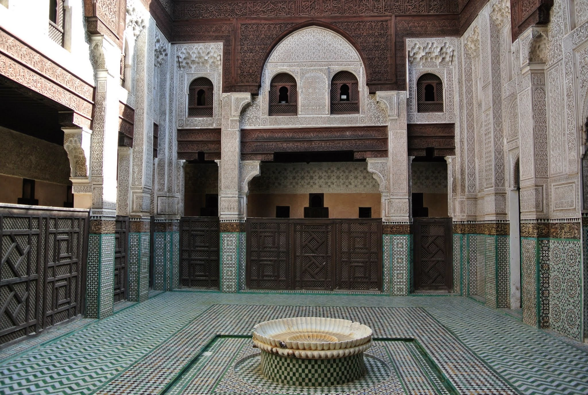 Medina, Meknes, Morocco